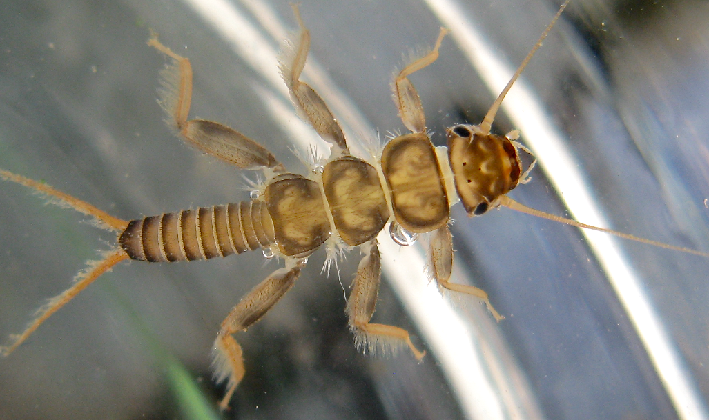 Houghton Creek (Seymour Street Branch) NY